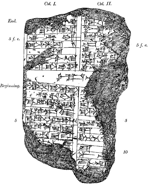 Fragm. of a baked clay cylinder, barrel shaped, solid, light brown, dated to the reign of Marduk-šāpik-zēri